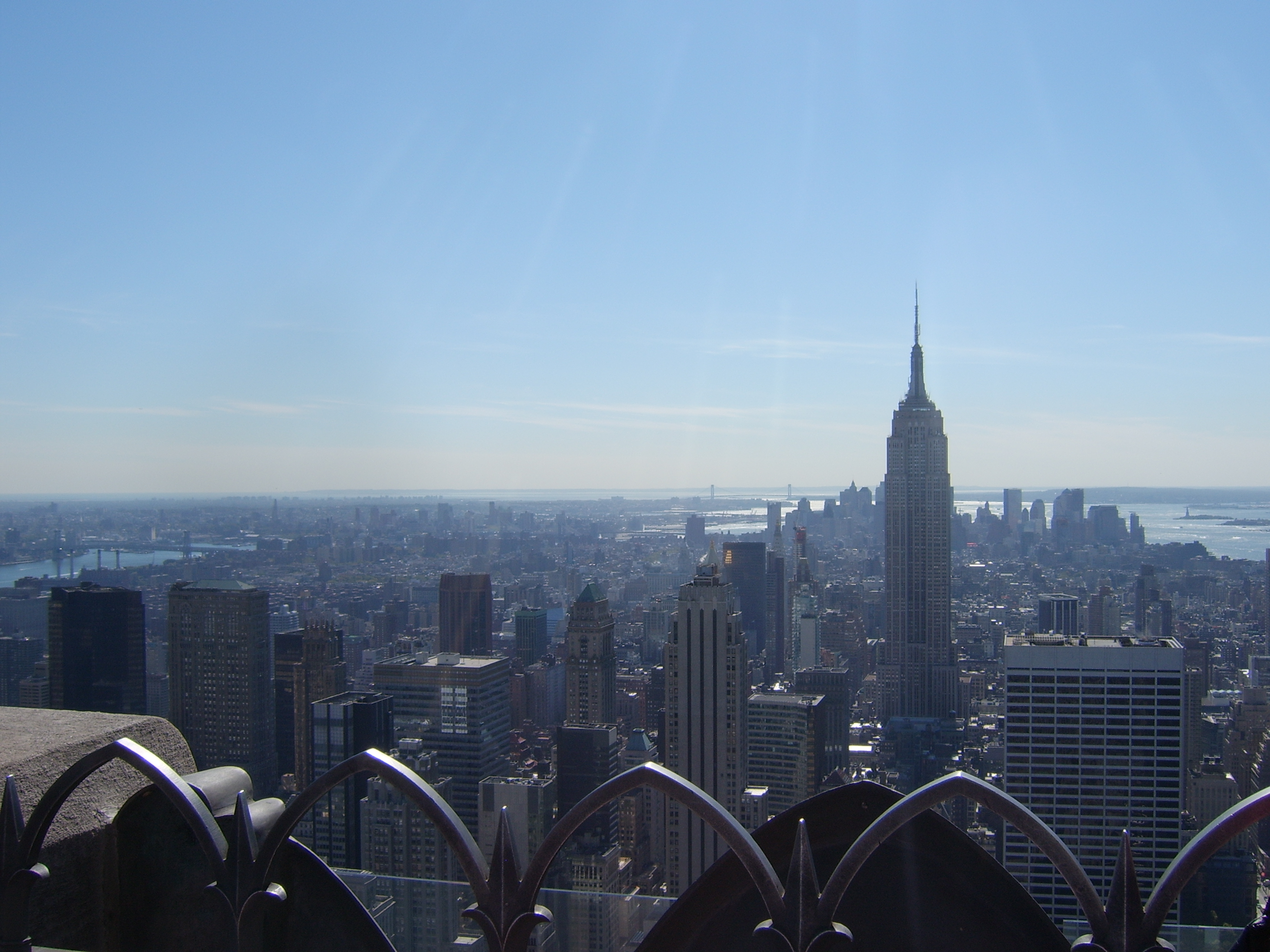 Category:Manhattan, New York City